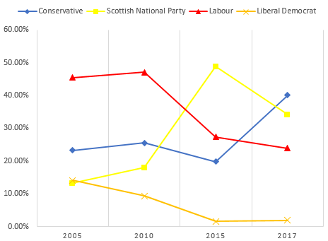 Ayr, Carrick and Cumnock election results chart